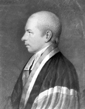 Portrait of William Paterson